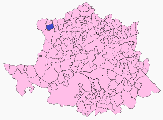 Villamiel